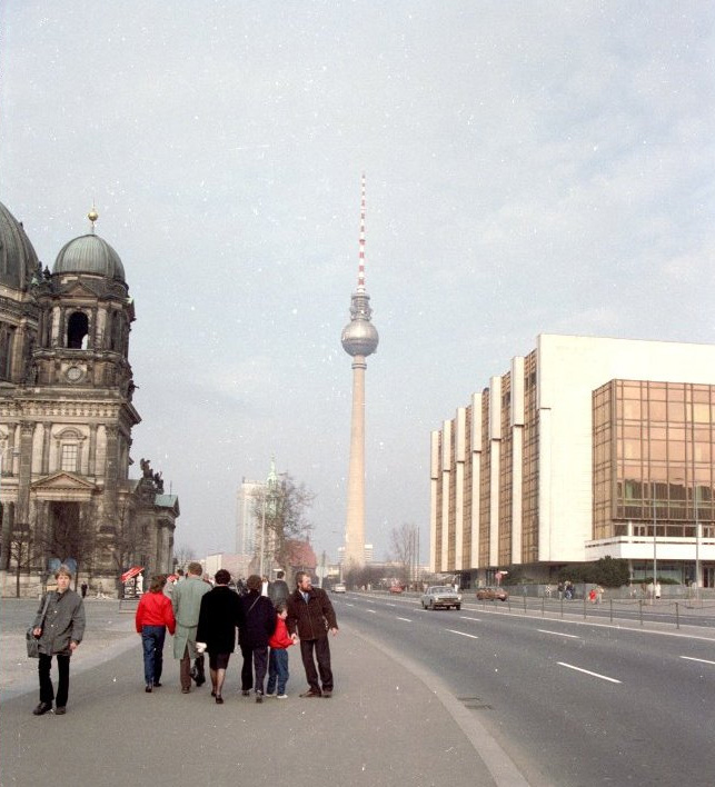 A view of the Palast der Republik, the Berliner Dom and the Fernsehturm in East Berlin on Easter Sunday of 1988.